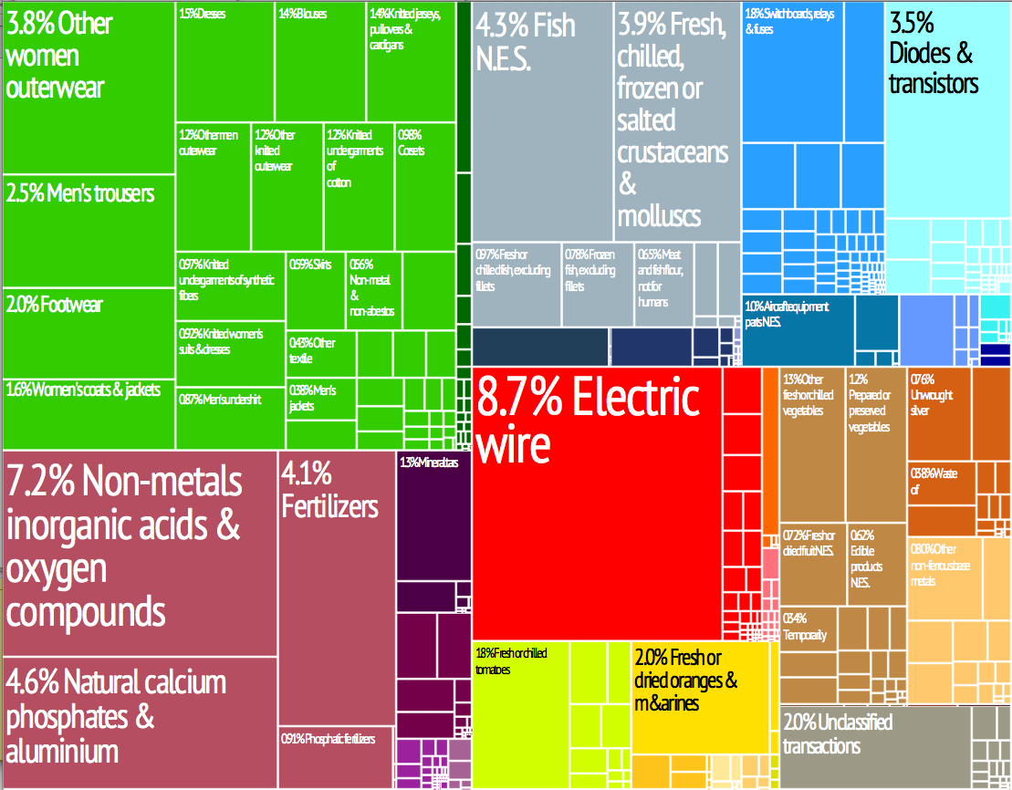 Export Trading Treemap. From MIT/Harvard Atlas of Economic Complexity